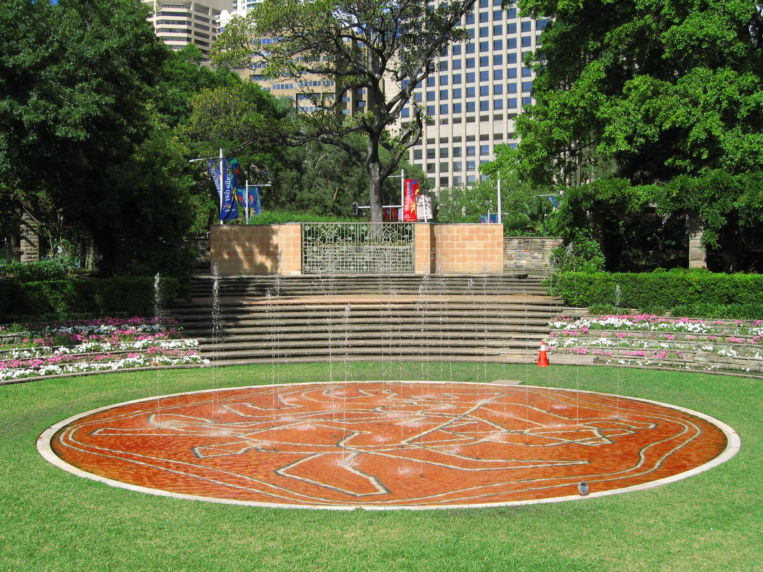 Sandringham Memorial Gardens, Hyde Park, Sydney, Australia.